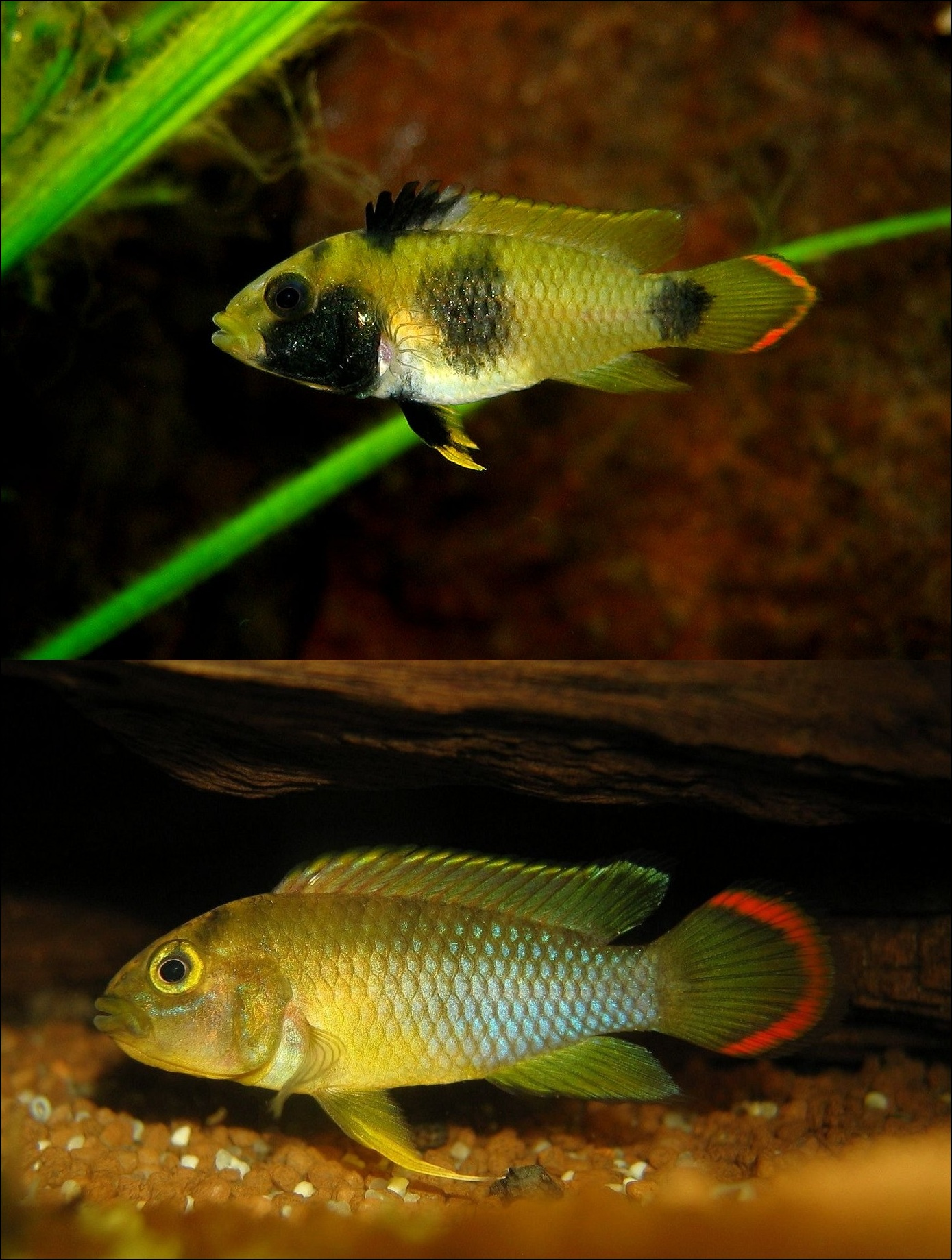 Apistogramma nijsseni, female above, male below